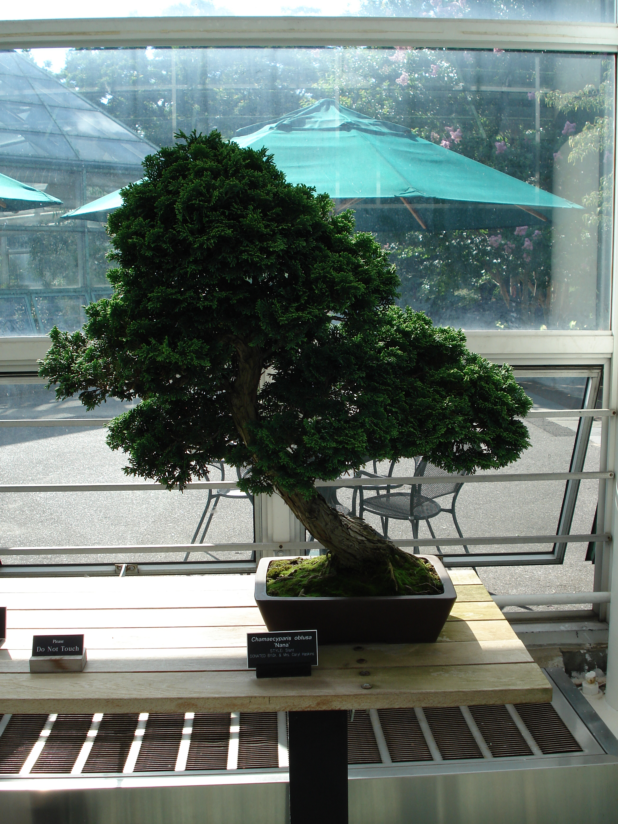 Chamaecyparis obtusa (Hinoki Cypress) "Slant" style bonsai from Brooklyn Botanic Garden, in New York City. Copyright 2007 Jeffrey O. Gustafson, released to Commons under the GFDL and CC-BY-SA-3.0.